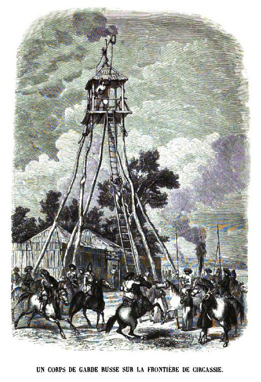 A Russian outpost at the border of Circassia (Geoffroy, 1845).